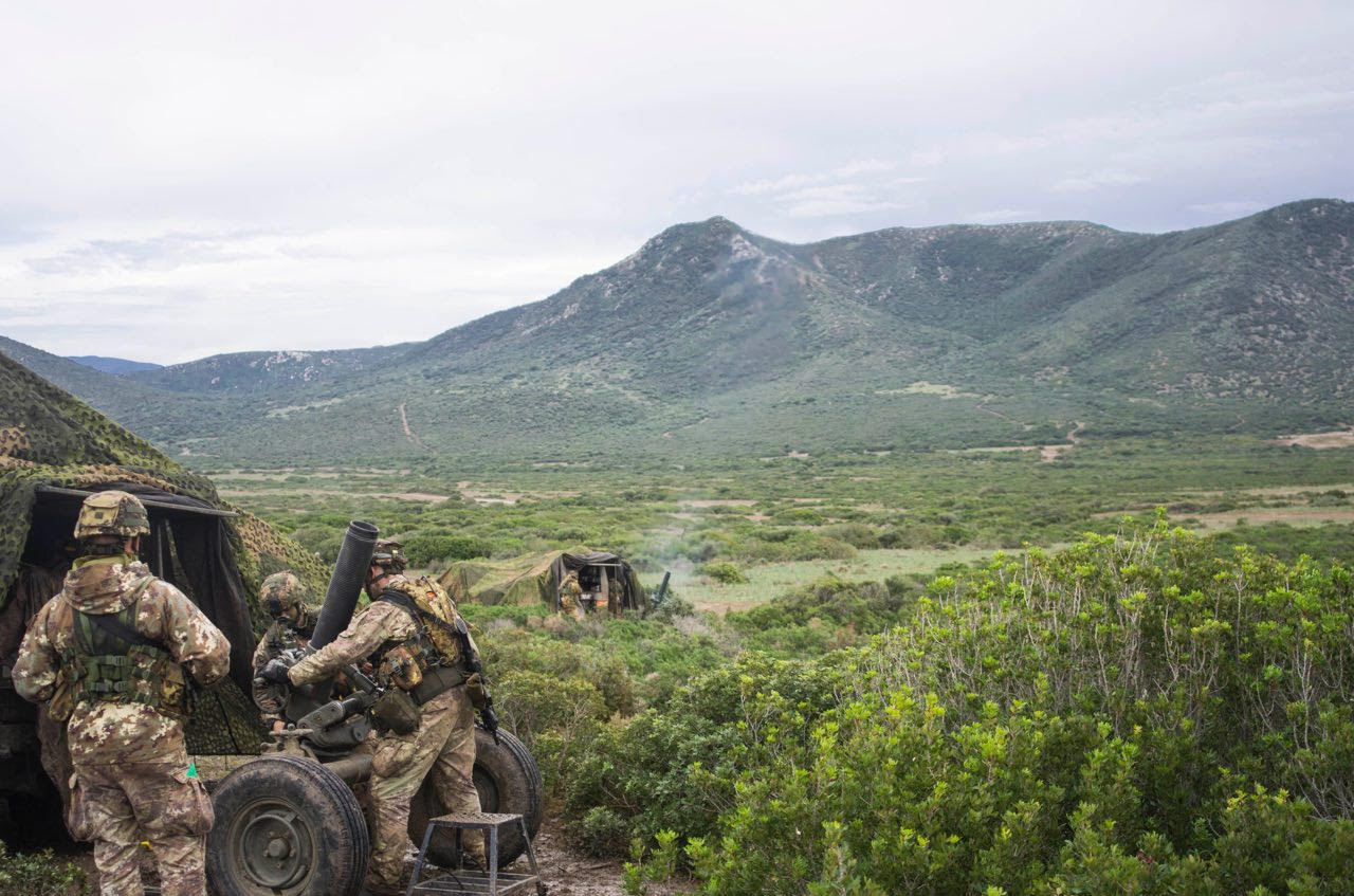 Italian Army soldiers of the 185th Paratroopers Artillery Regiment "Folgore" during the Summer Tempest exercise 2016